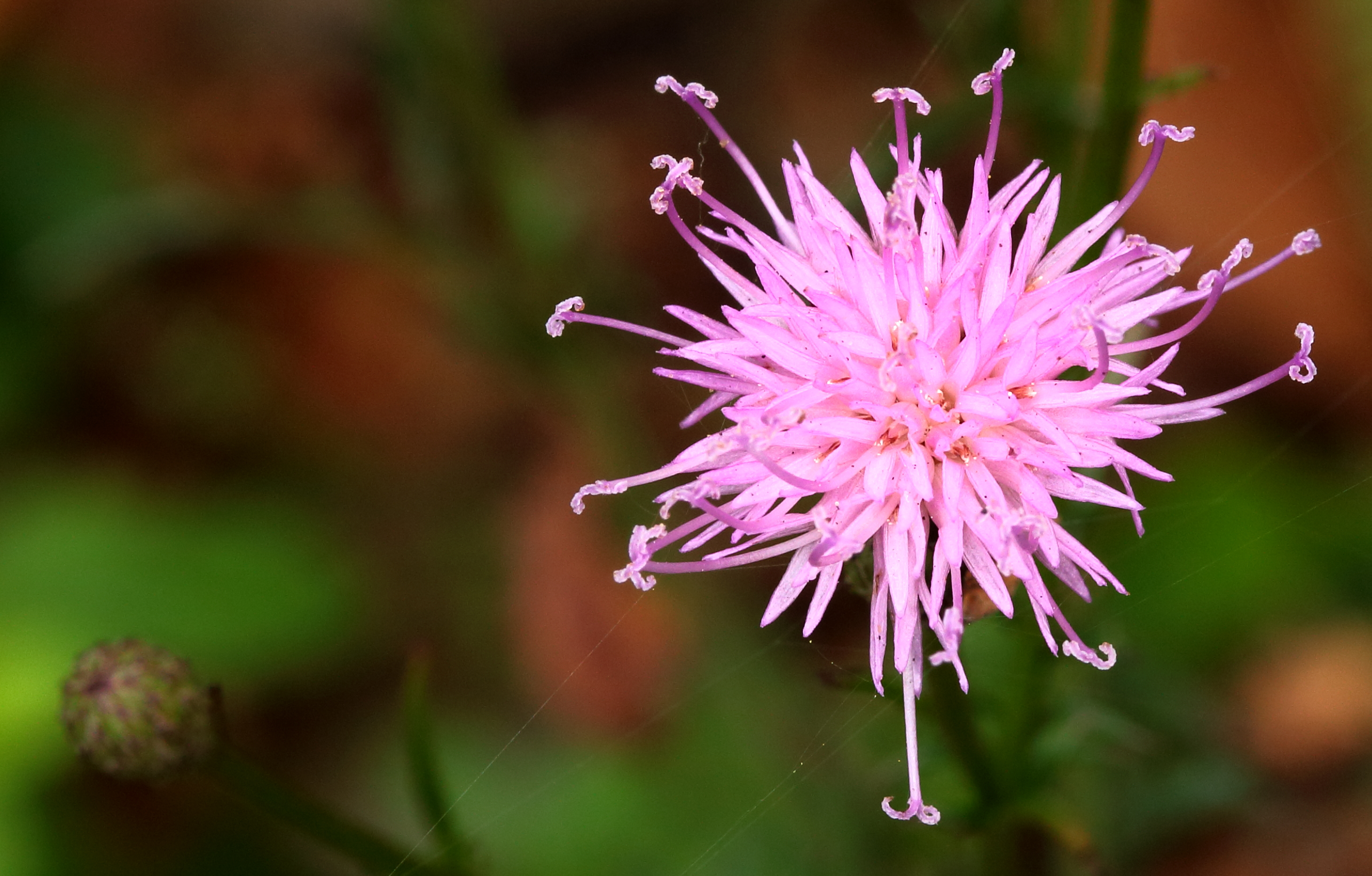 Serratula seoanei, blade.